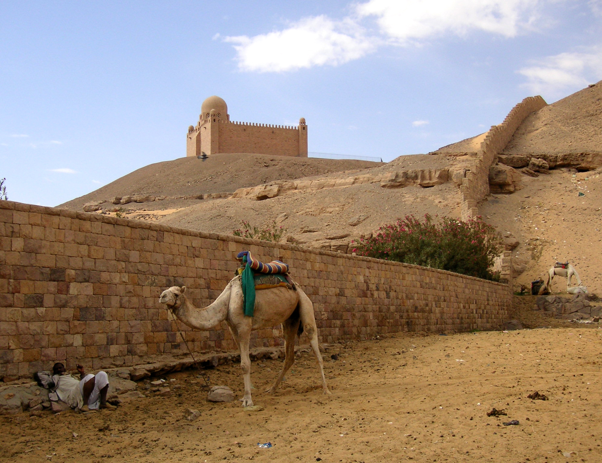 Aga Khan Mausoleum near Aswan, Egypt.